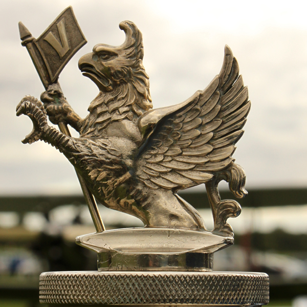 The Vauxhall Griffin from Vauxhall D-type (1920)